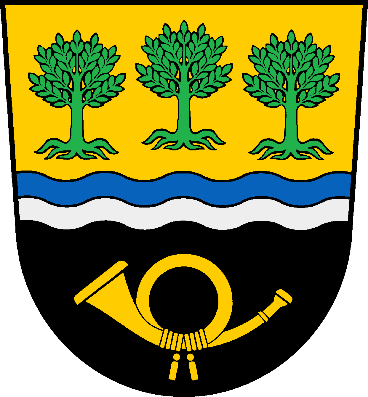 Coat of arms of the municipality Schönberg (Lauenburg) in Schleswig-Holstein, Germany.